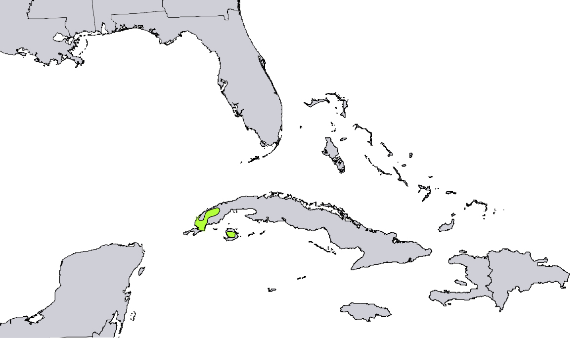 Range map of Pinus tropicalis'